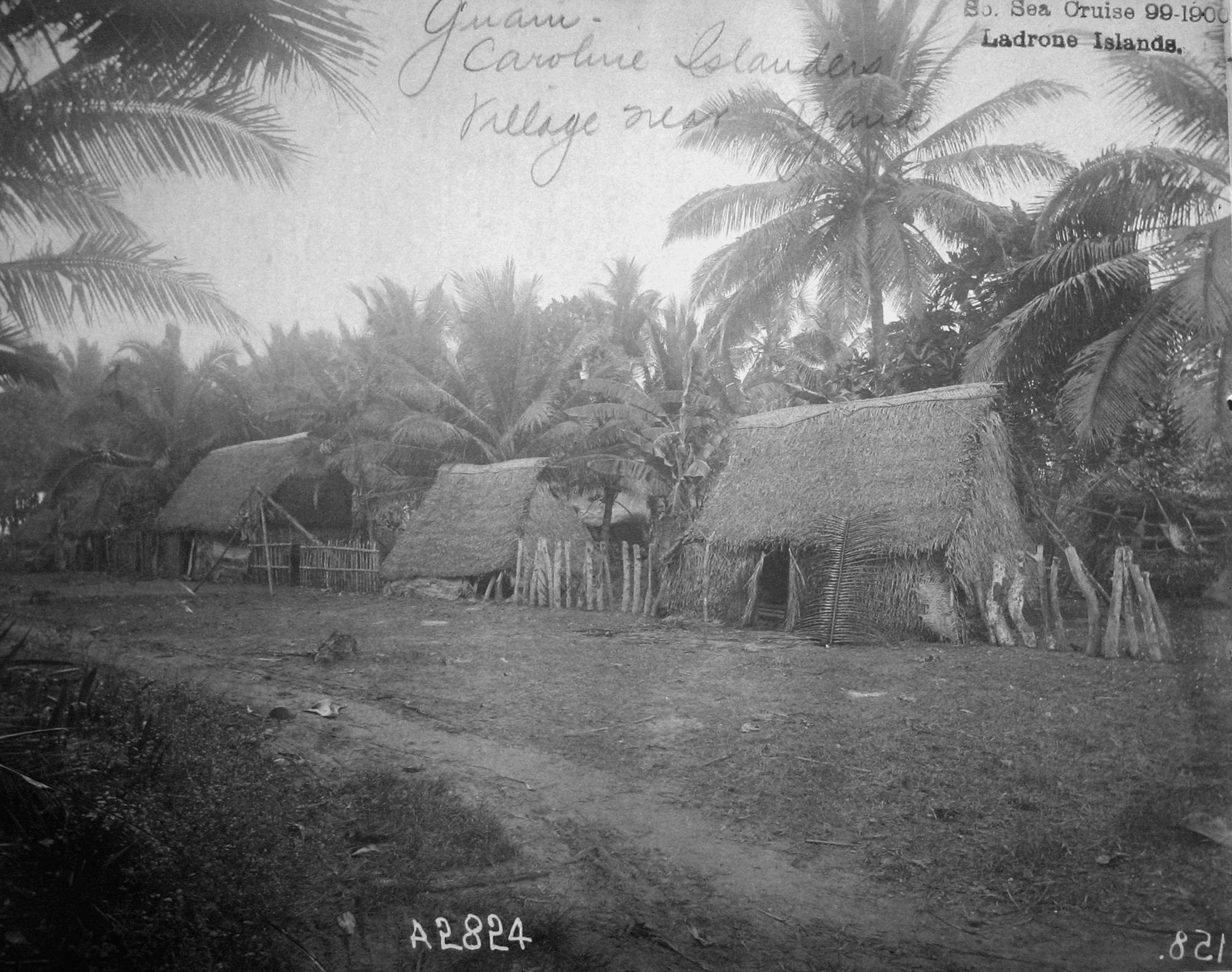 South Sea cruise 99-1900, Ladrone Islands, Guam, Caroline islanders village near Agana.